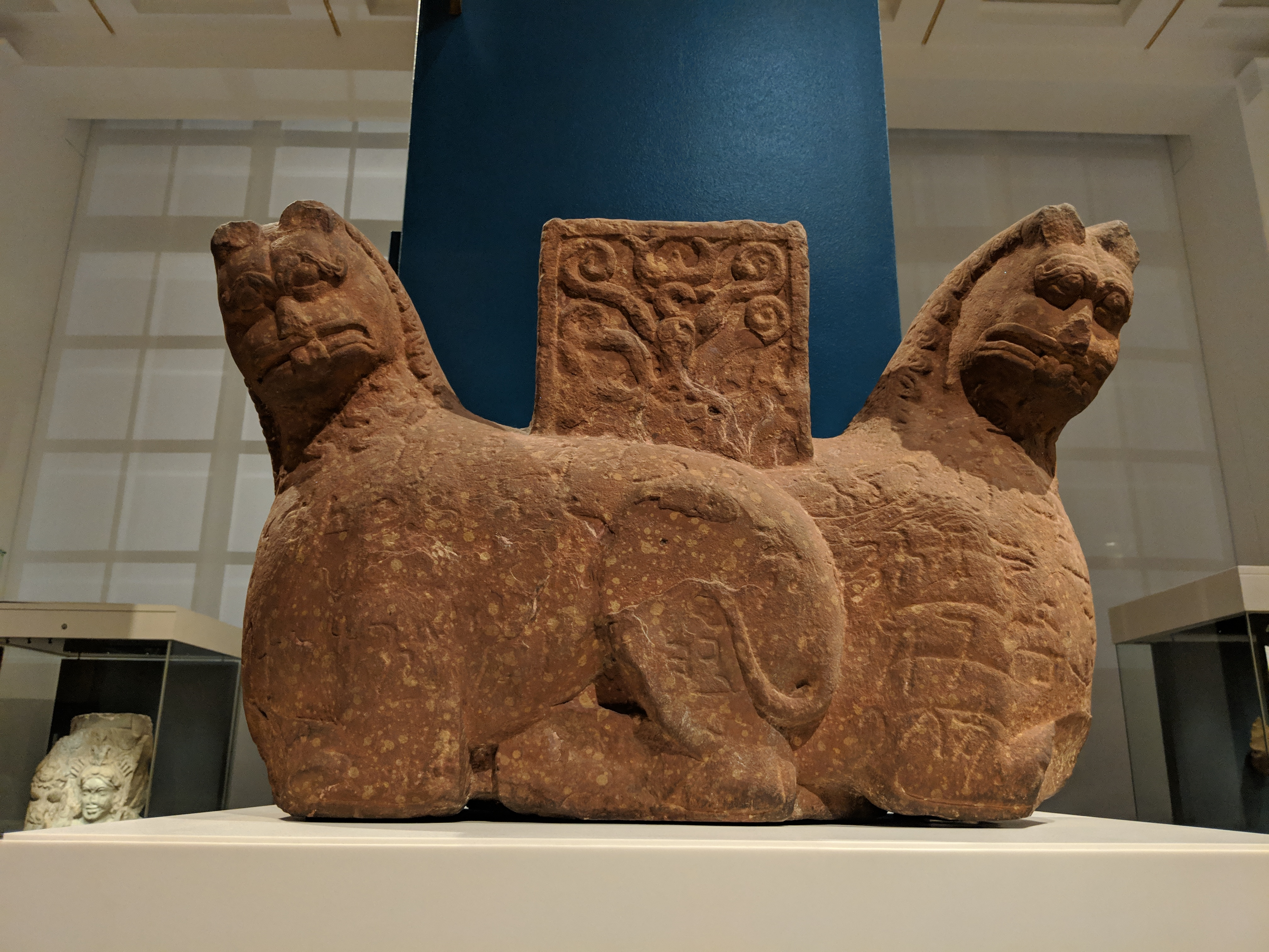 The Mathura lion capital on display in the Sir Joseph Hotung Gallery for China and South Asia at the British Museum